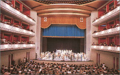 Inside talar-e rudaki